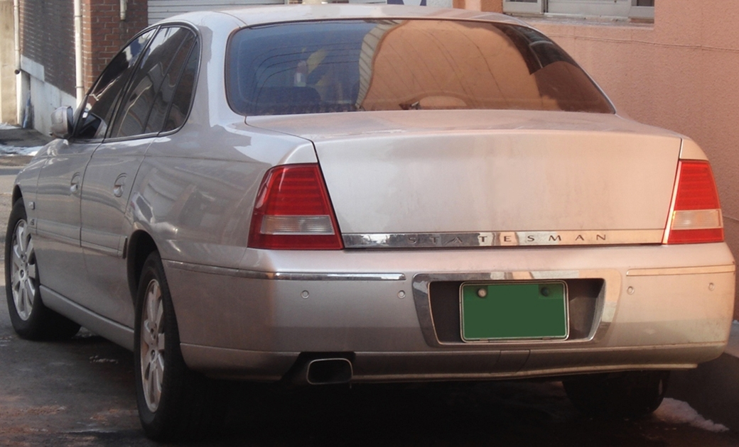 Daewoo Statesman